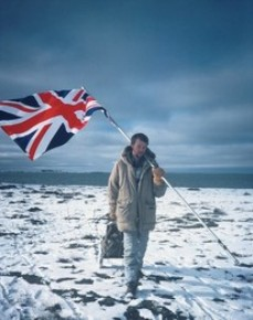 Meegan with the Brit flag at endpoint.